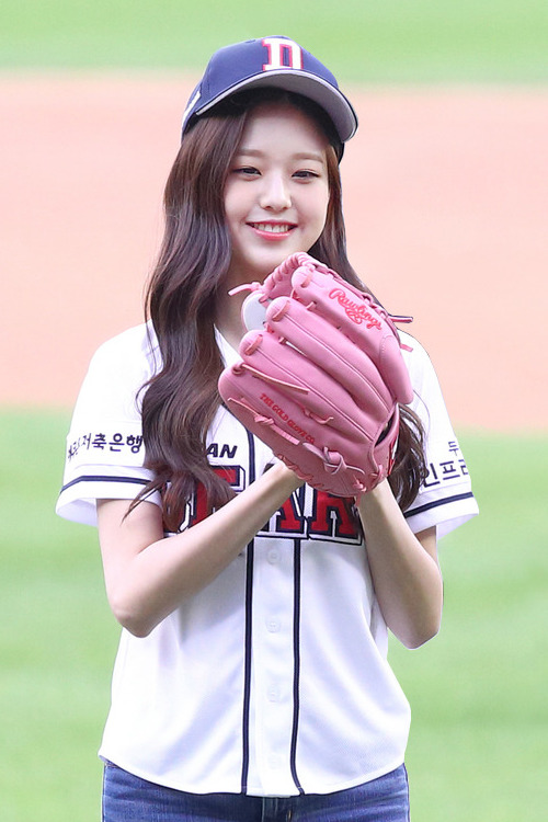 181006 아이즈원 장원영 미야와키 사쿠라 잠실 시구시타